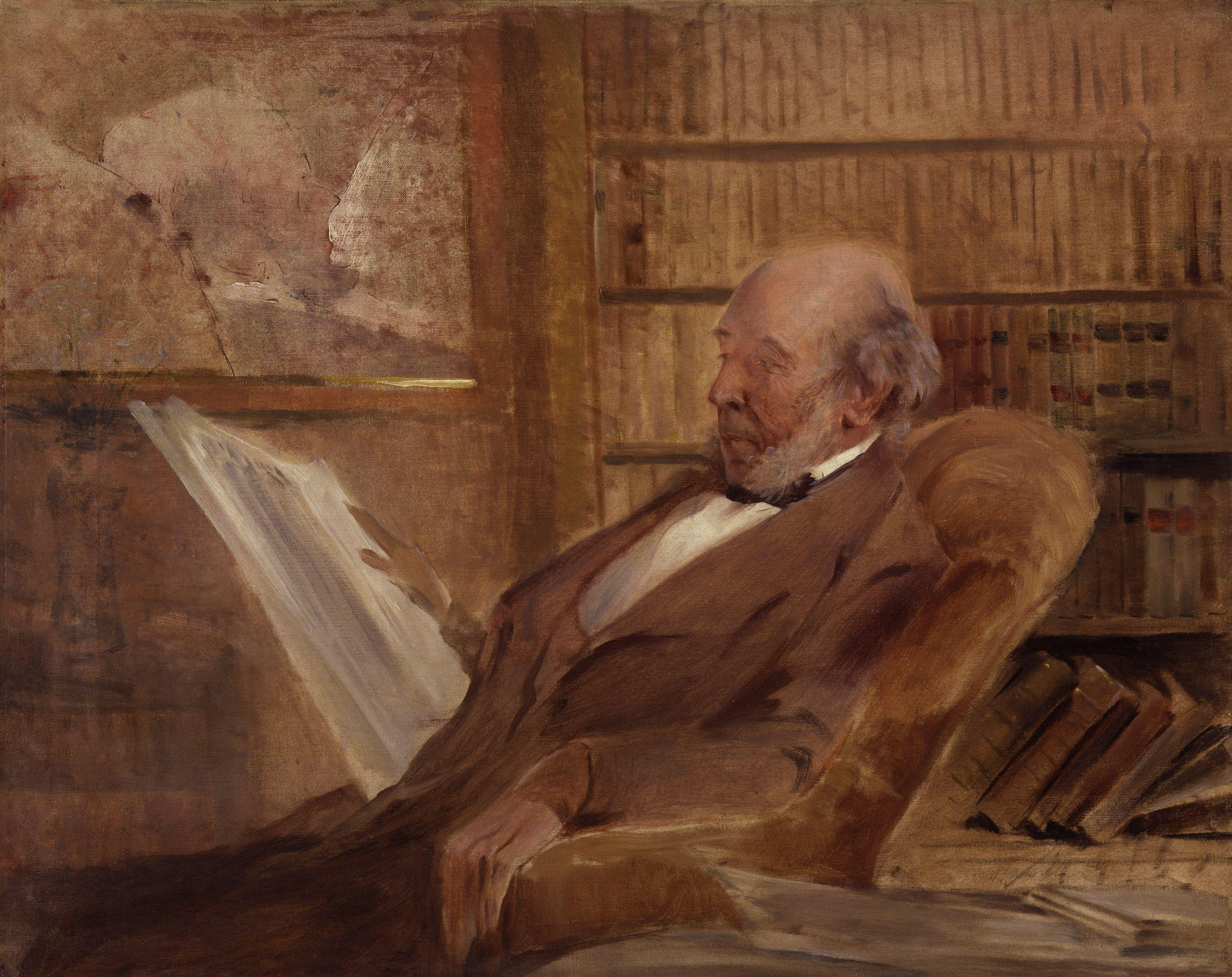 Herbert Spencer, by John McLure Hamilton (died 1936), given to the National Portrait Gallery, London in 1959. All images in this batch have been confirmed as author died before 1939 according to the official death date listed by the NPG.